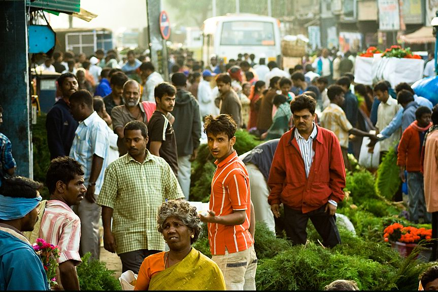 Shot @ City Market (Flower Market),Bangalore,Feb08. BWS Photo-shoot ...started at 6AM morning on a February Saturday ..!!